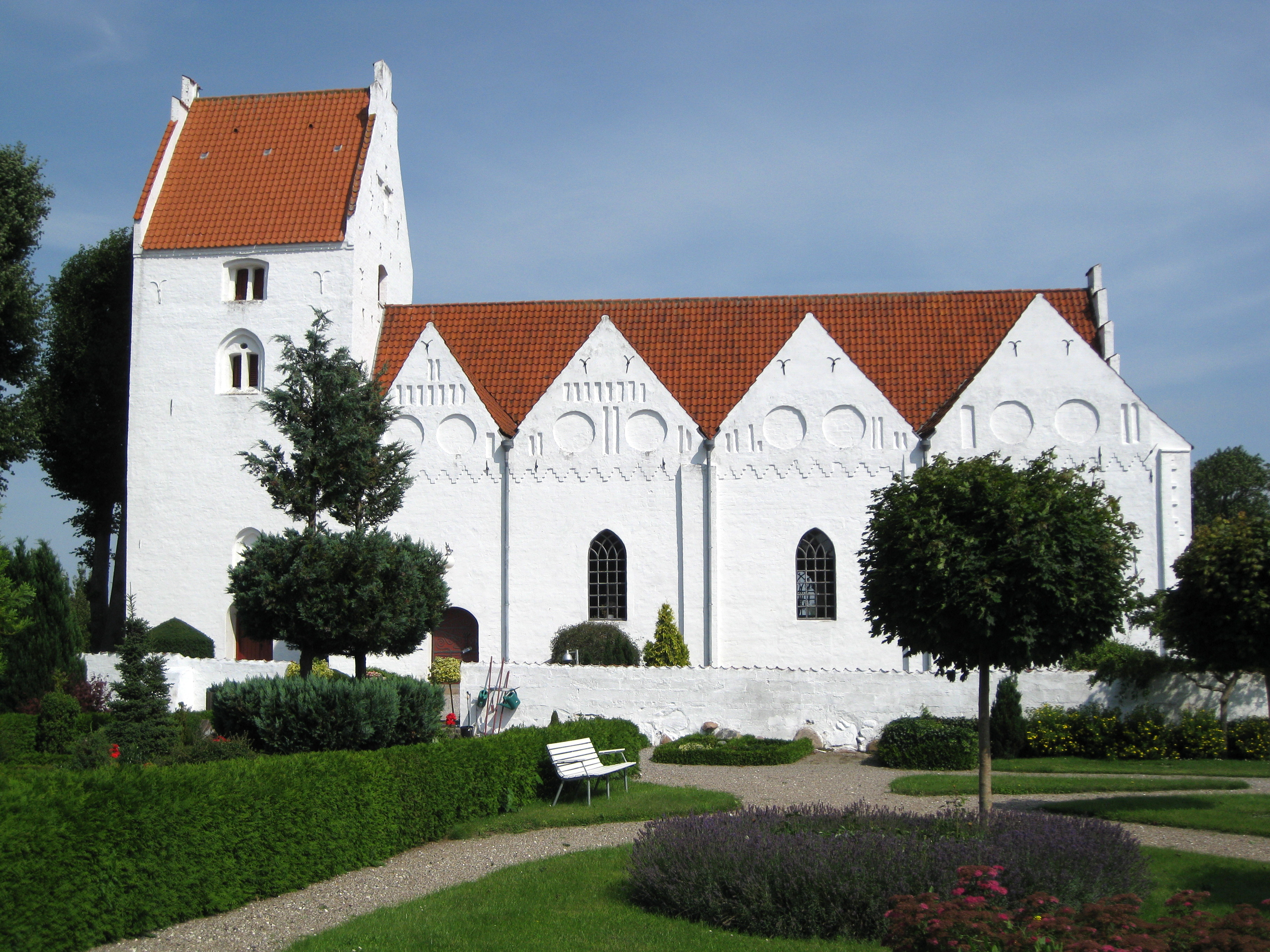 The church "Mern Kirke" in the small town "Mern". The town is located on South Zealand in east Denmark.